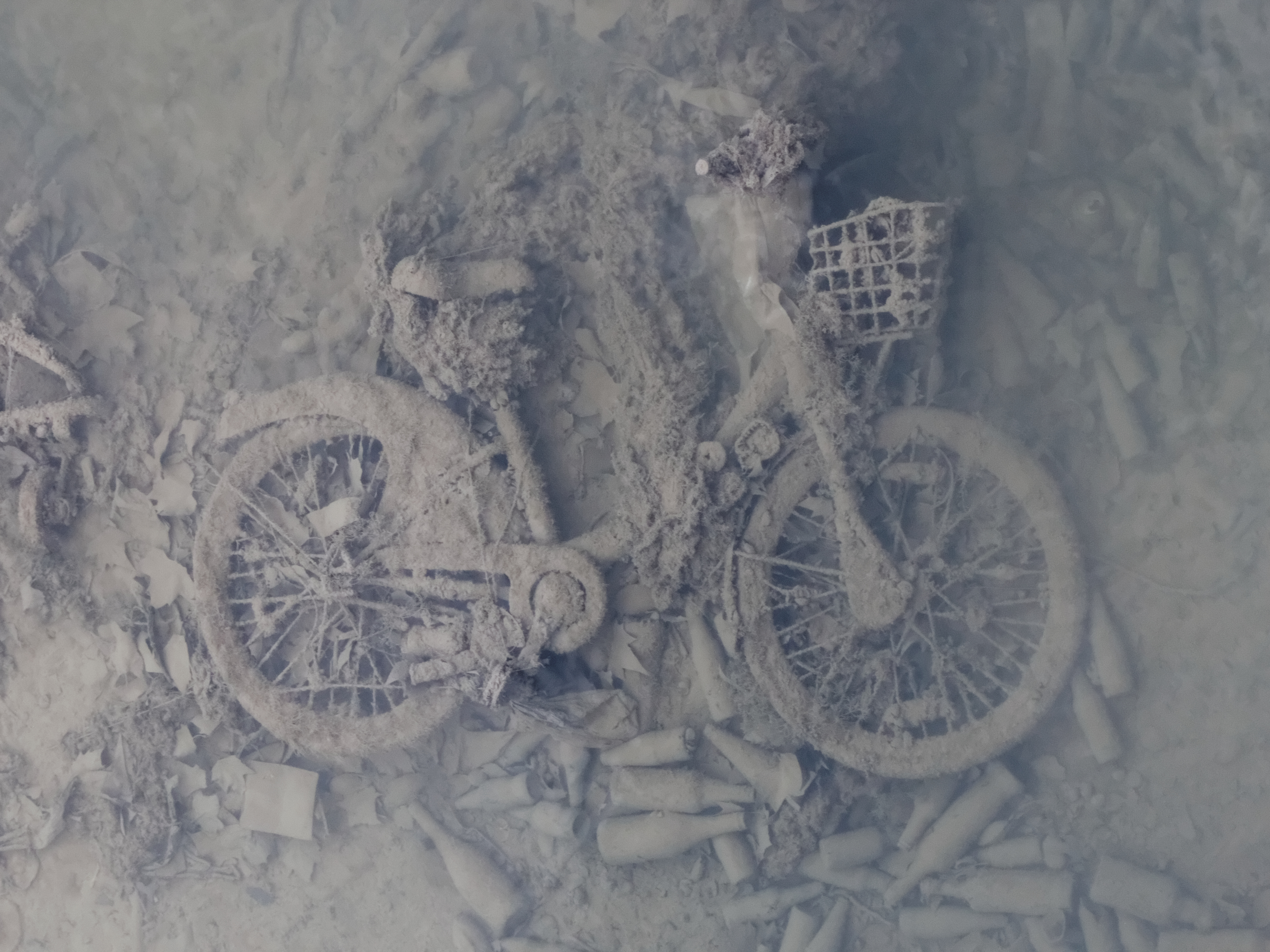 Vélib' thrown into the canal Saint-Martin in Paris and that reappears when emptying the canal during winter 2016.